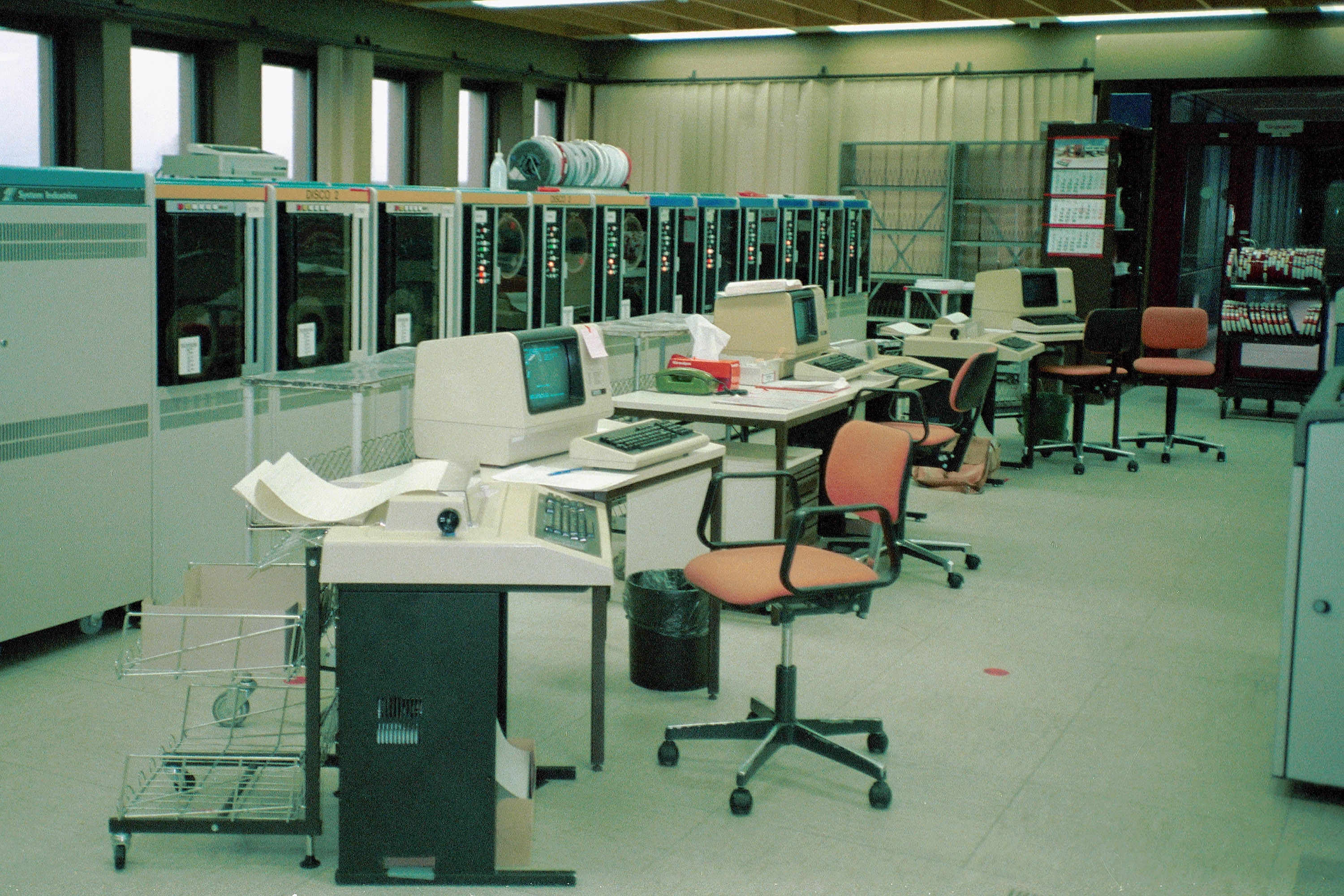 Data processing center of Prakla-Seismos (VAX area)